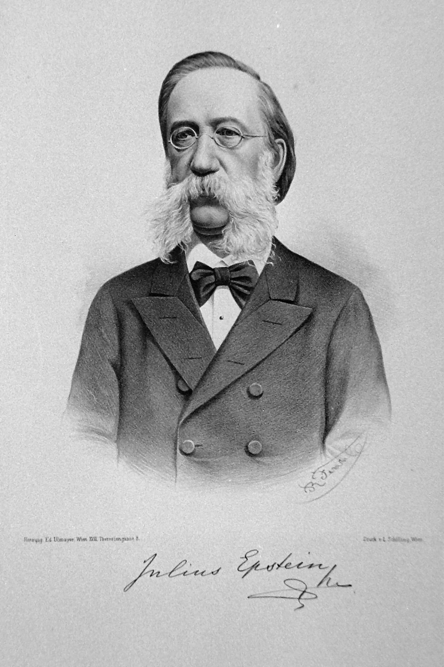 Julius Epstein (1832-1926), Pianist Lithograph by R. Fenzl, about 1880